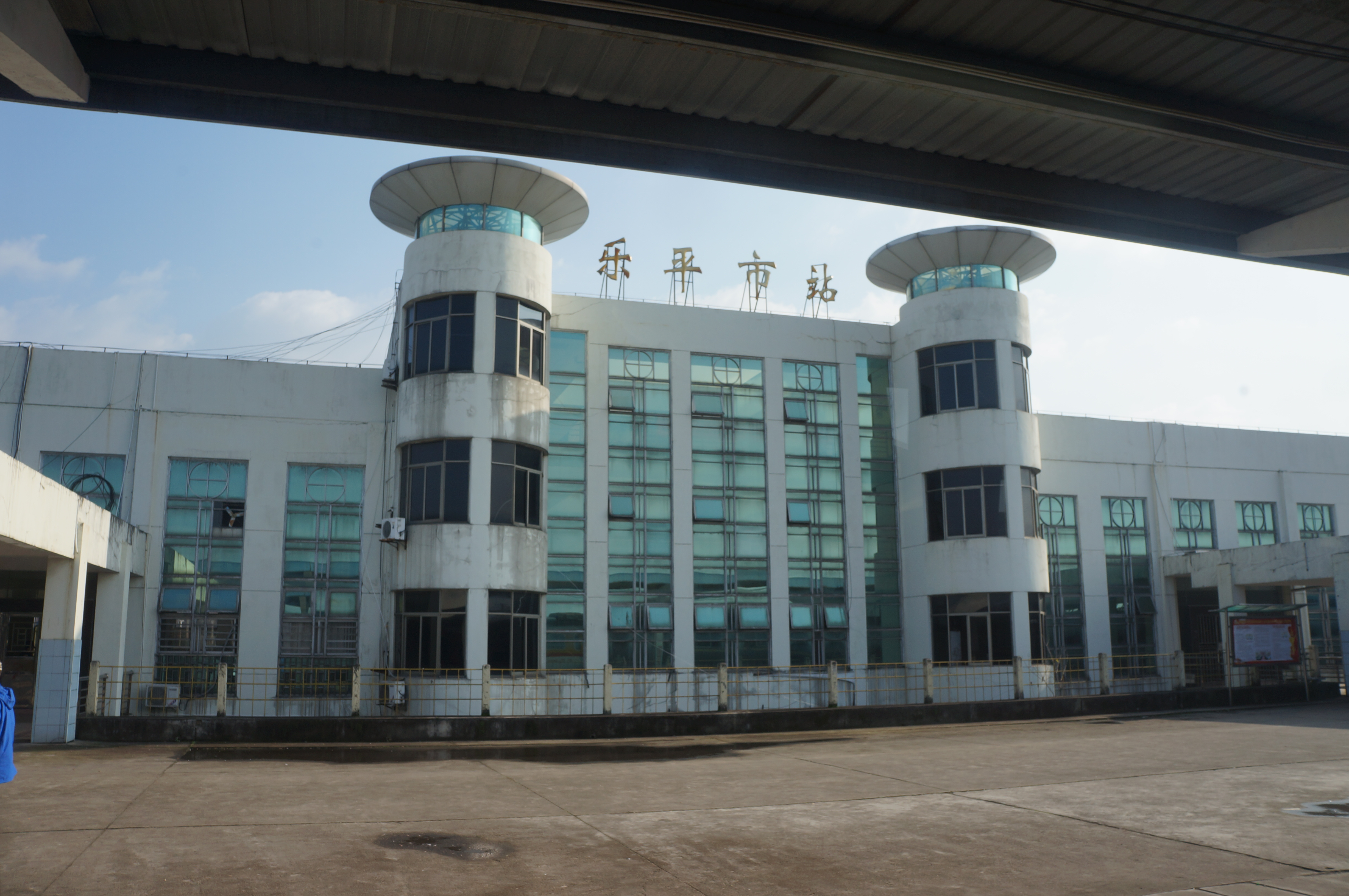 201612 Lepingshi Station. The announcement of the train ignored to read "shi" in case of misunderstanding.